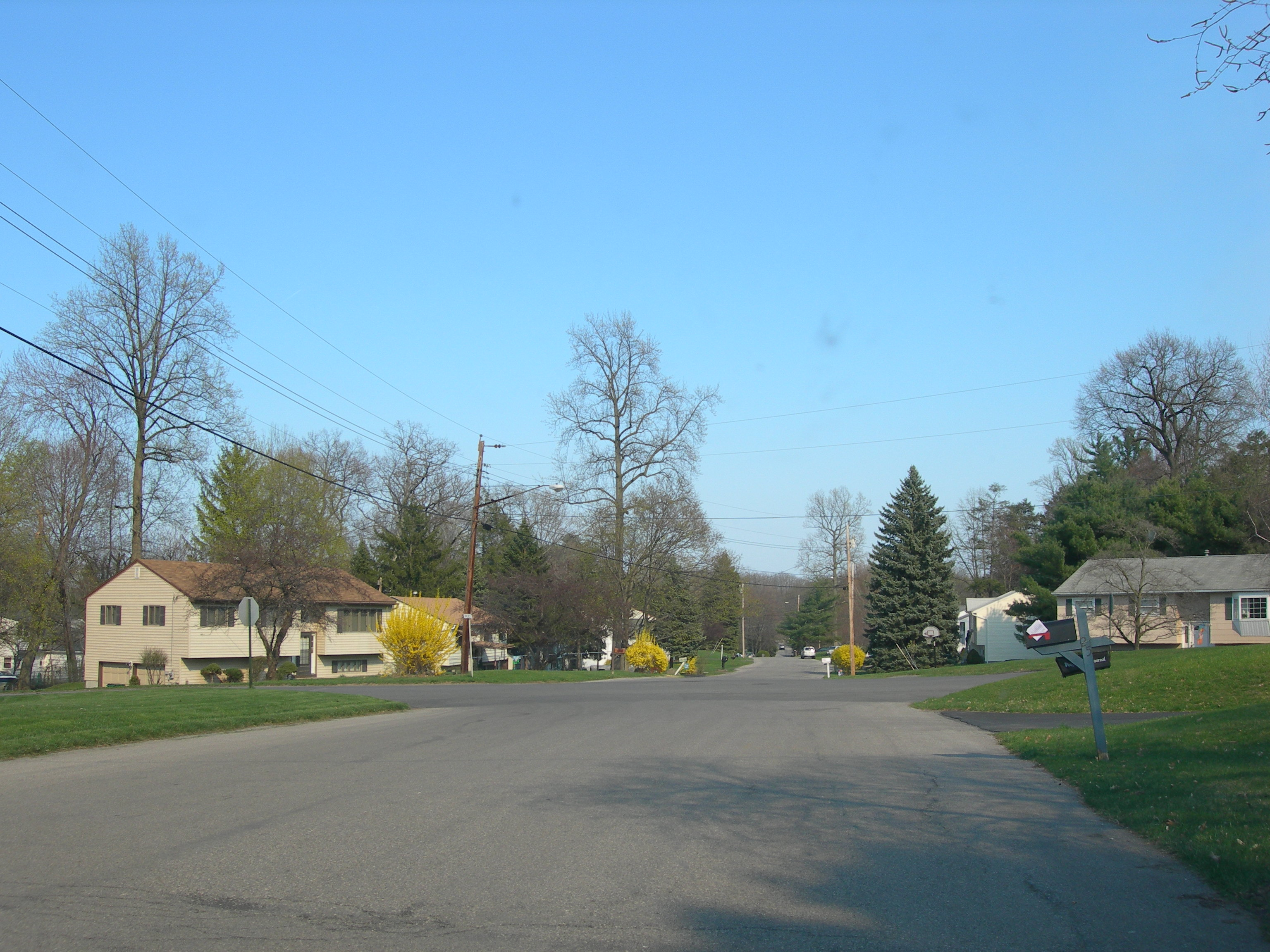 Crown Heights residential neighborhood, Town of Poughkeepsie, New York